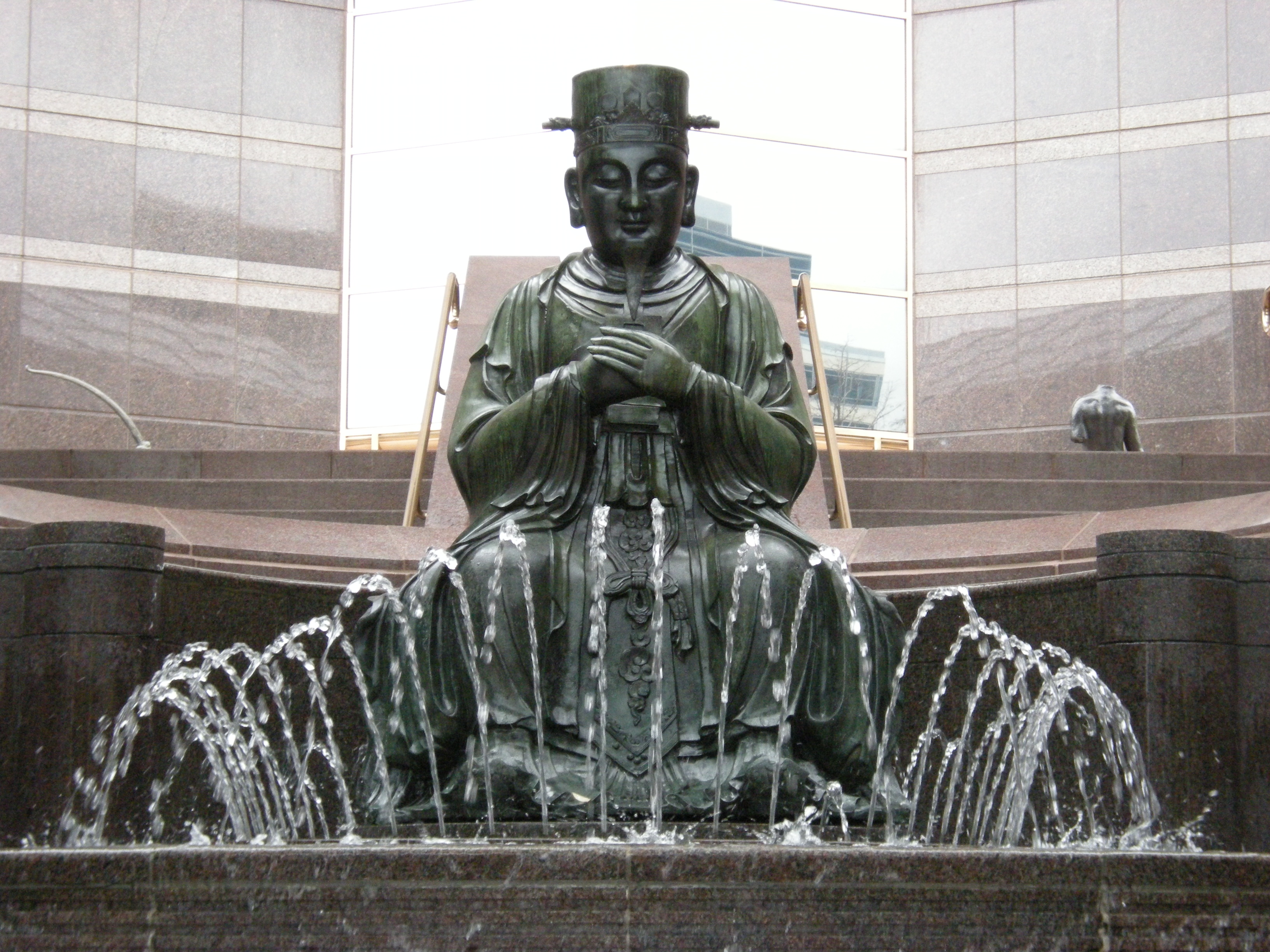 Seated Daoist/Taoist deity (and fountain) outdoor court of Trammell and Margaret Crow Collection of Asian Art, a museum in Dallas, Texas.